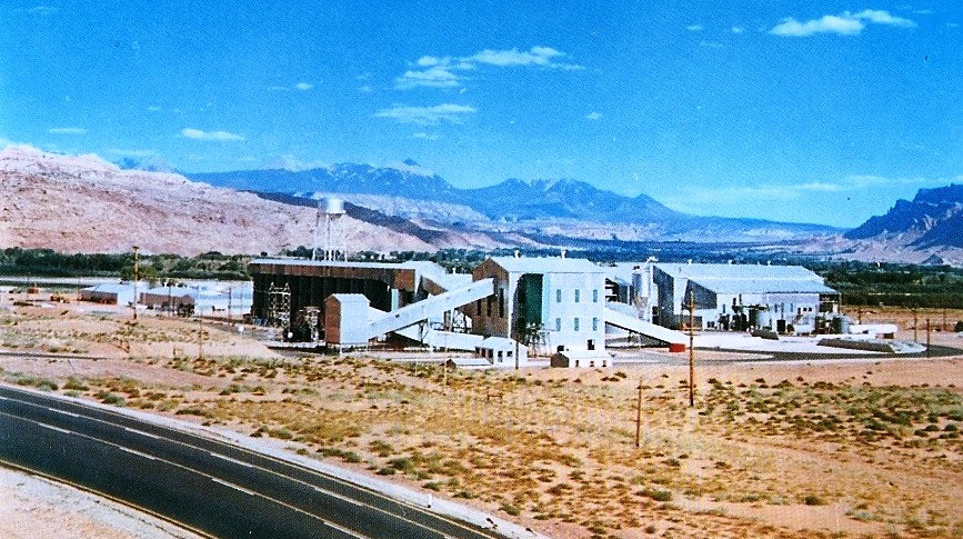 Steen's $11 million dollar Uranium Reduction Co. Moab, Utah